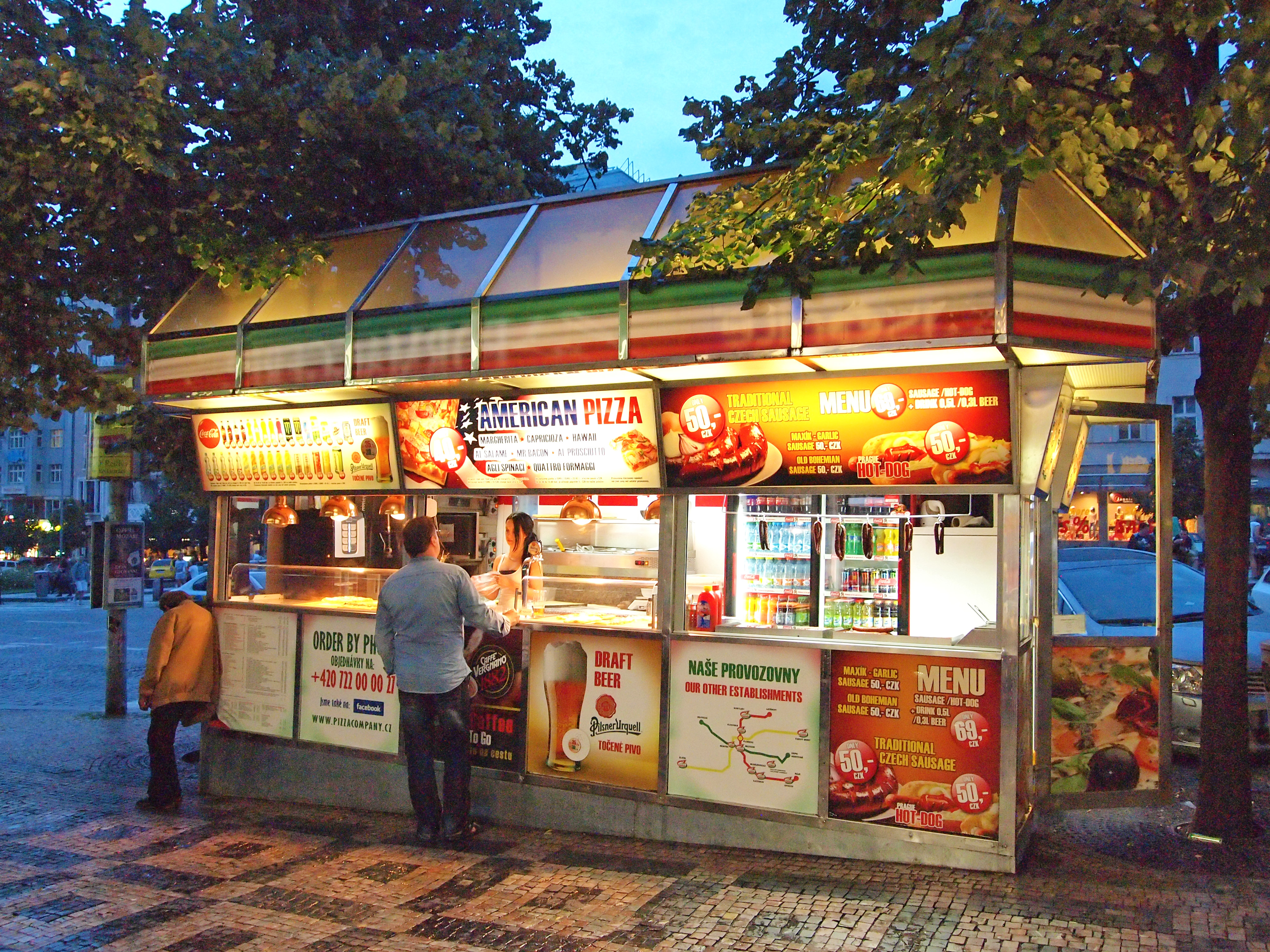 Kiosk serving fast food on the Wenceslas Square in Prague.